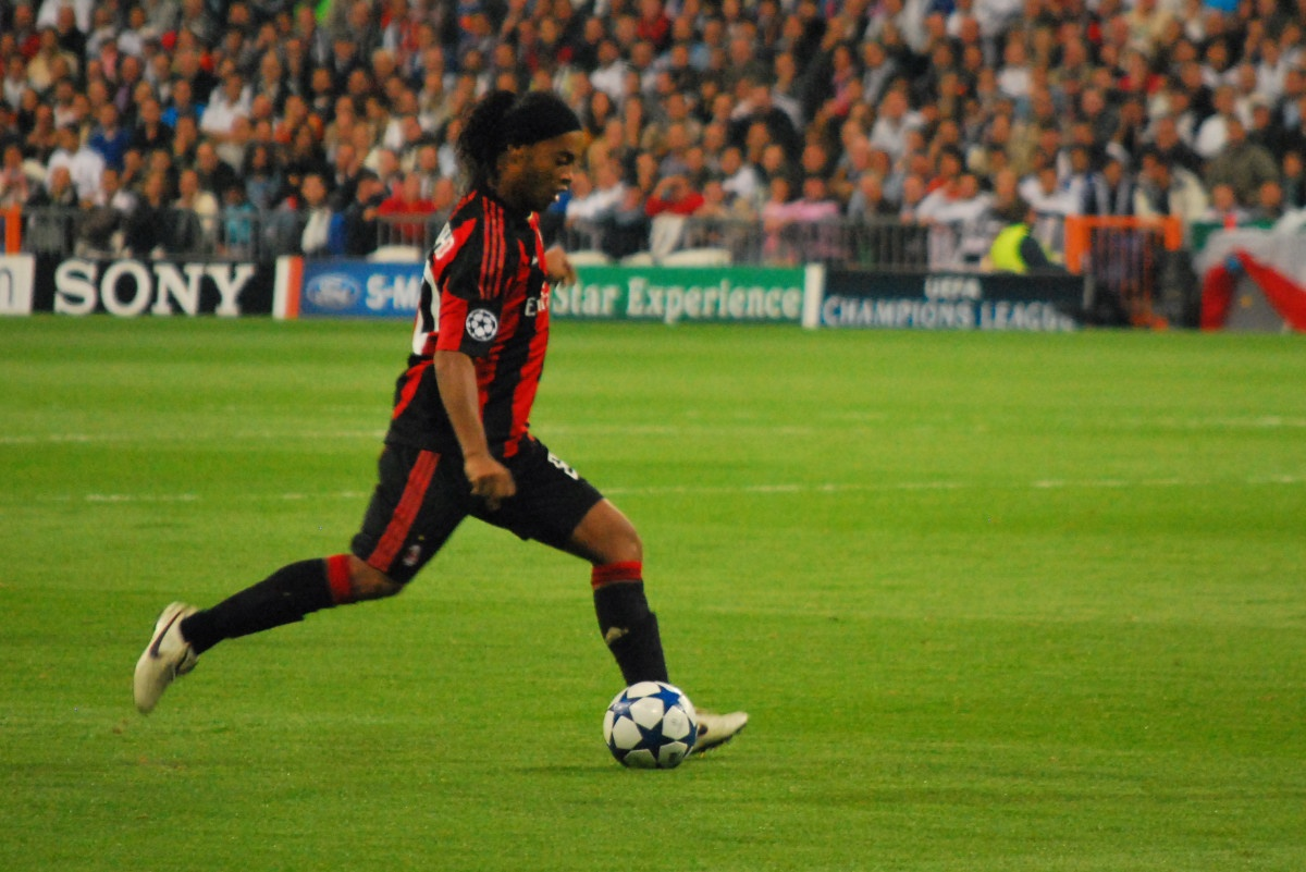 Ronaldinho during Real Madrid CF-AC Milan, 2010–11 UEFA Champions League